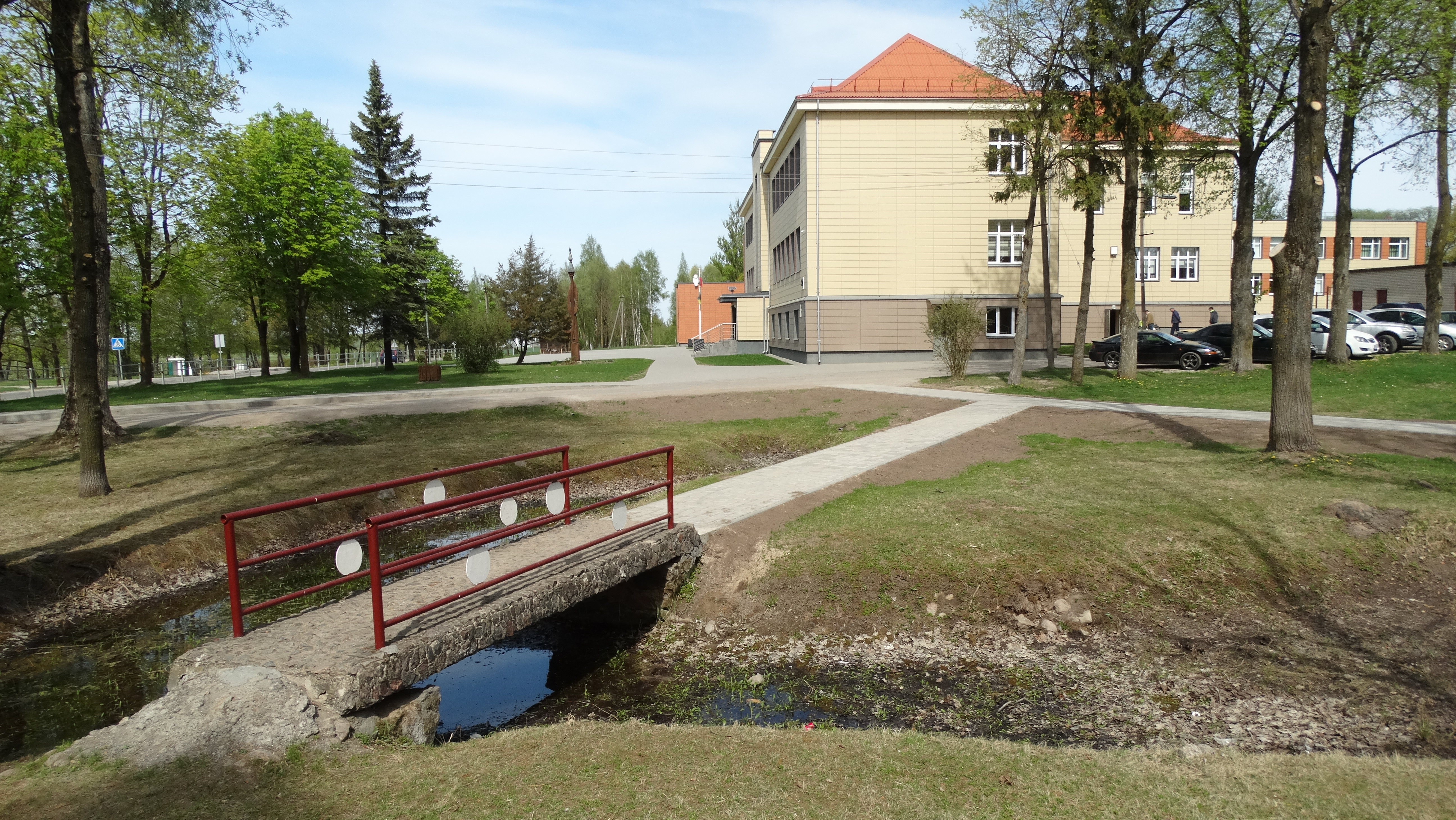 Linkuva, gymnasium, Pakruojis District, Lithuania